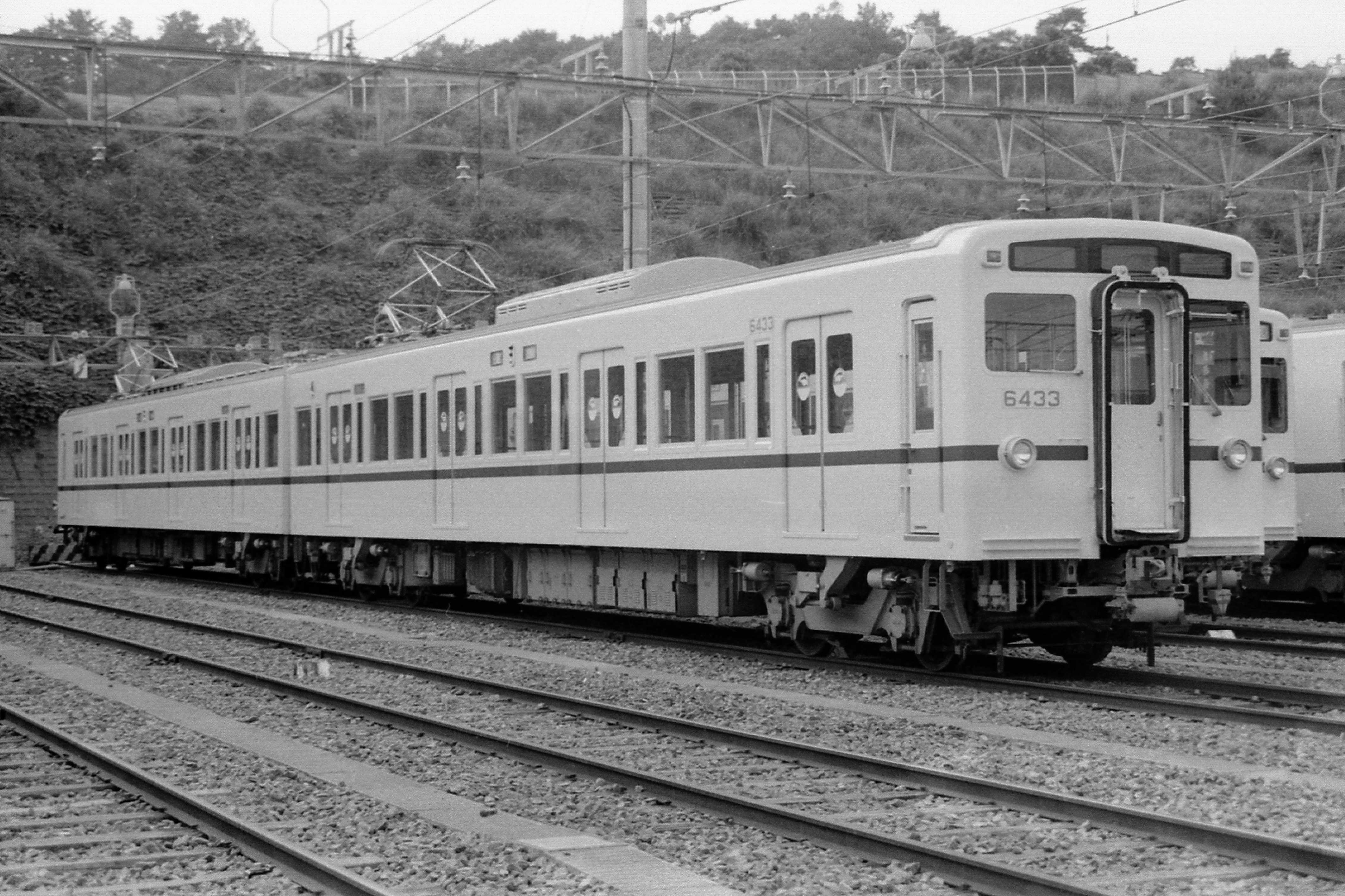 Keio unit 6433 Wakabadai